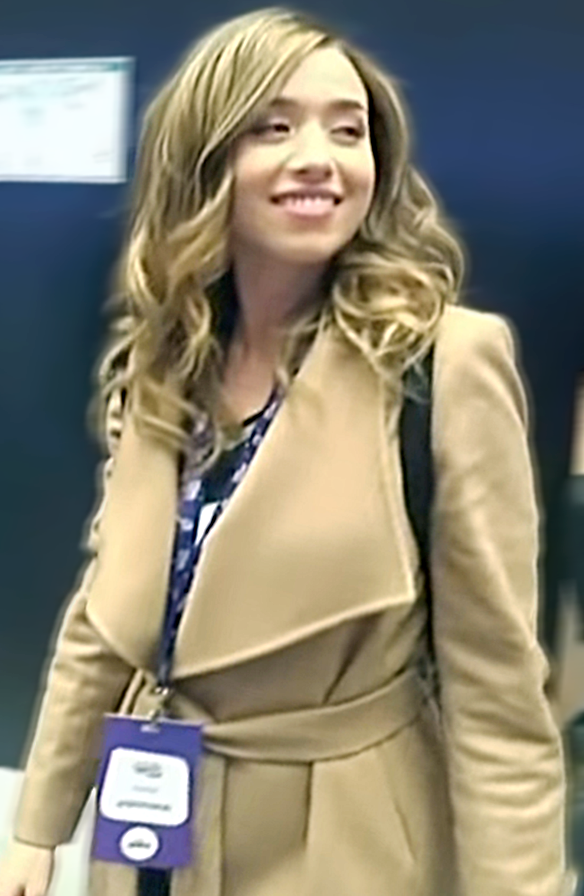 Pokimane at Twitchcon Berlin in 2019 taken from SlikeR's stream.